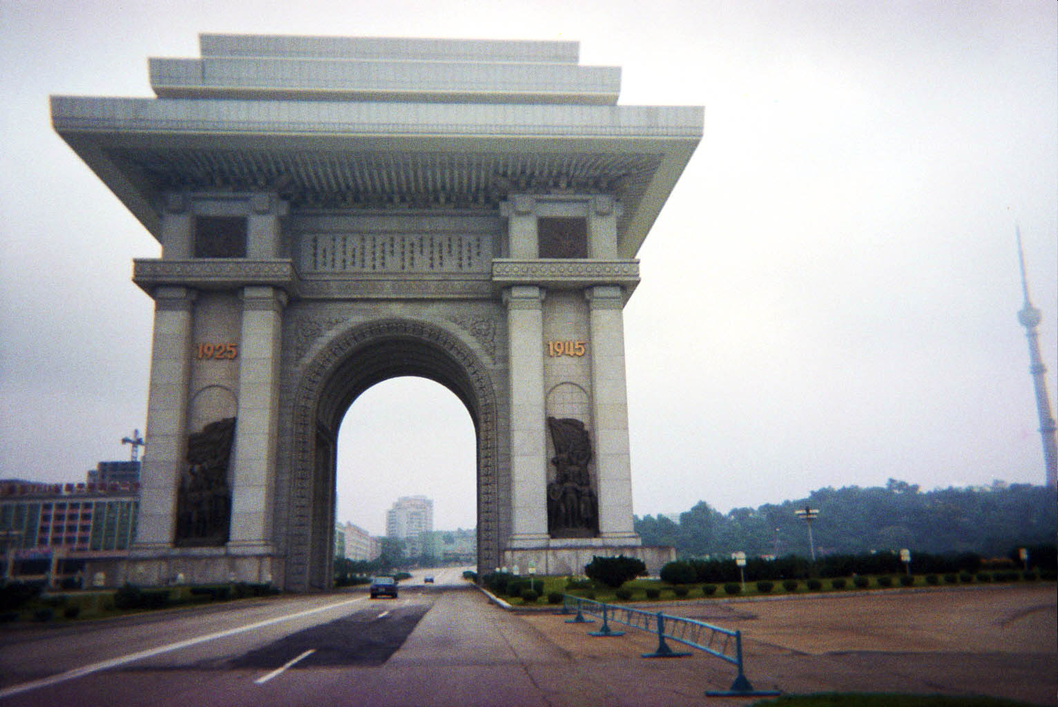 Arch of Triumph Pyongyang